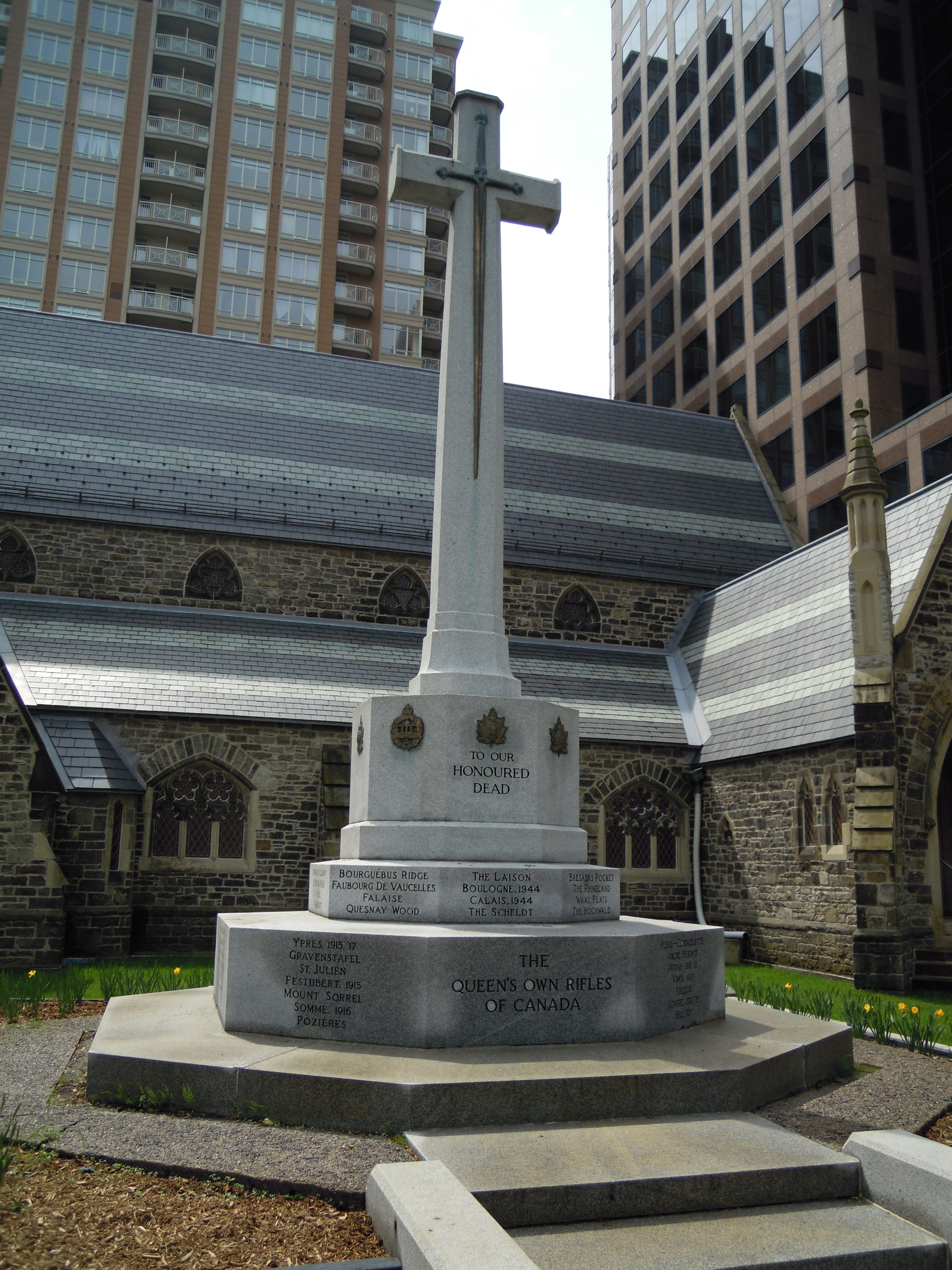 War memorial of The Queen's Own Rifles of Canada, on the grounds of St Paul's Church on Bloor Street, Toronto, Ontario, Canada.